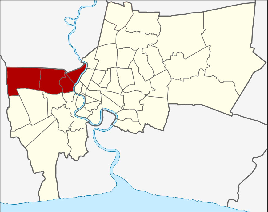 Bangkok 2007 Election Zone 12